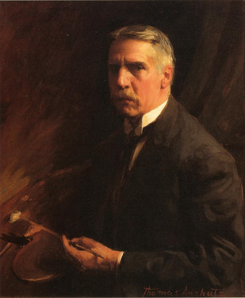 Self-portrait